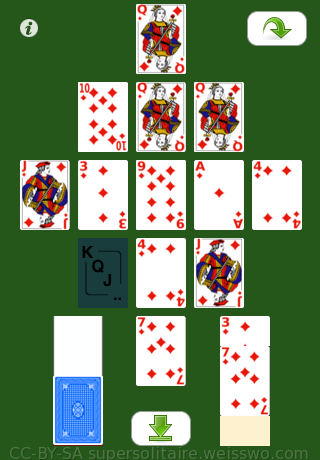 This figure shows the solitaire game "Windmill" in progress. The center foundation holds 52 cards the diagonal foundations one family each. For simplicity this game uses one suit only. Screenshot from my pet project SuperSolitaire for the iPhone.